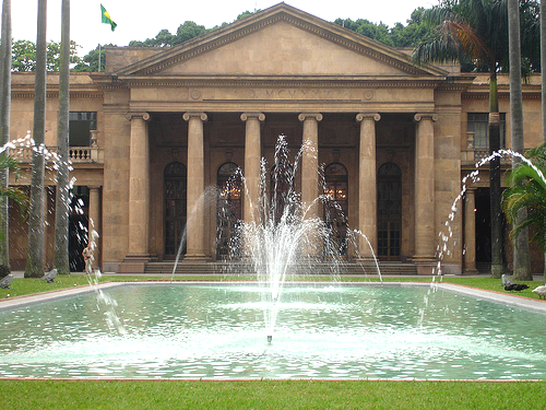 The Itamaraty Palace in Rio de Janeiro, Brazil. This neoclassical building is the regional office of the Ministry of External Relations of Brazil.